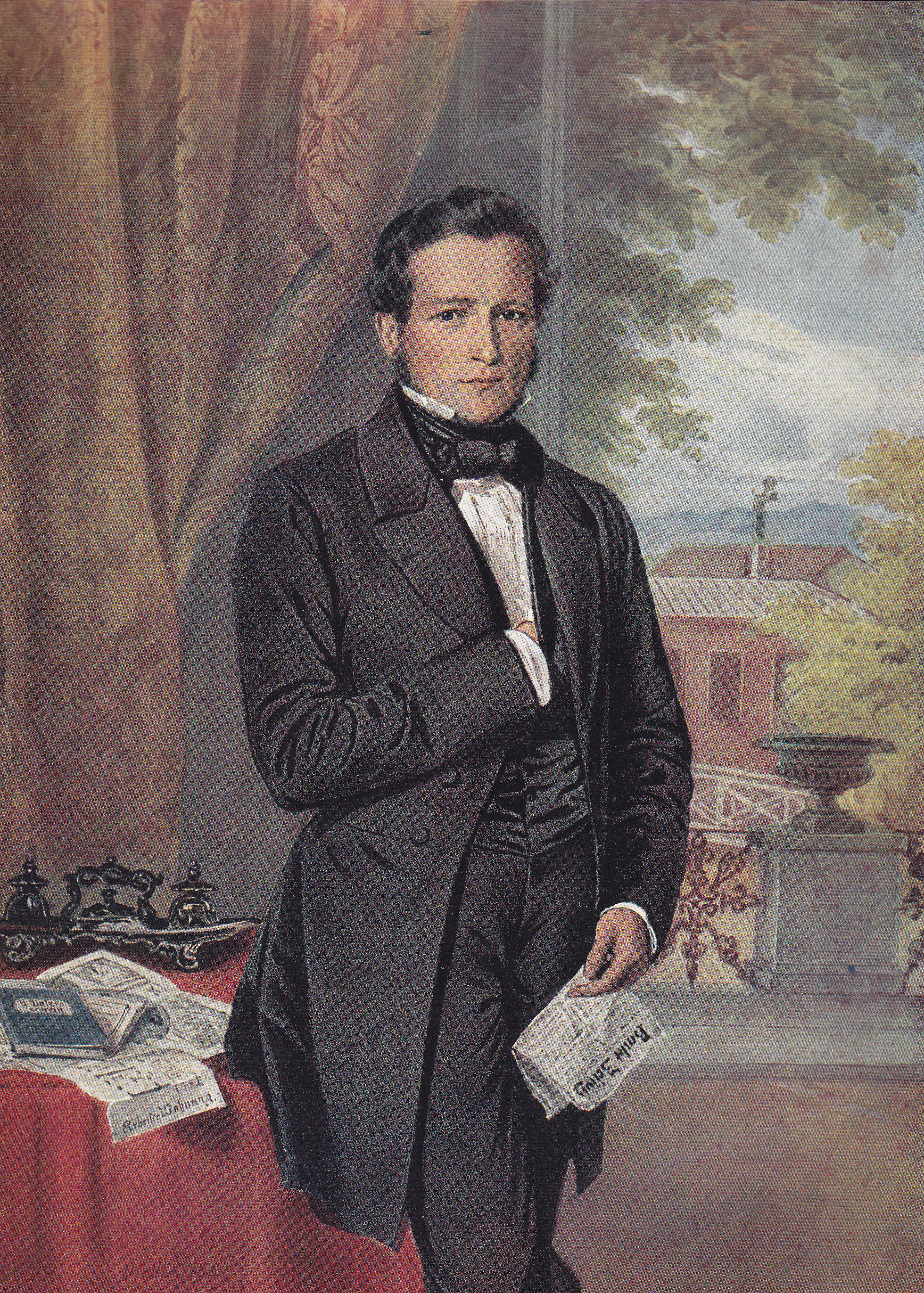 Painting of Karl Sarasin (1815-1886), Swiss entrepreneur and politician from Basel.